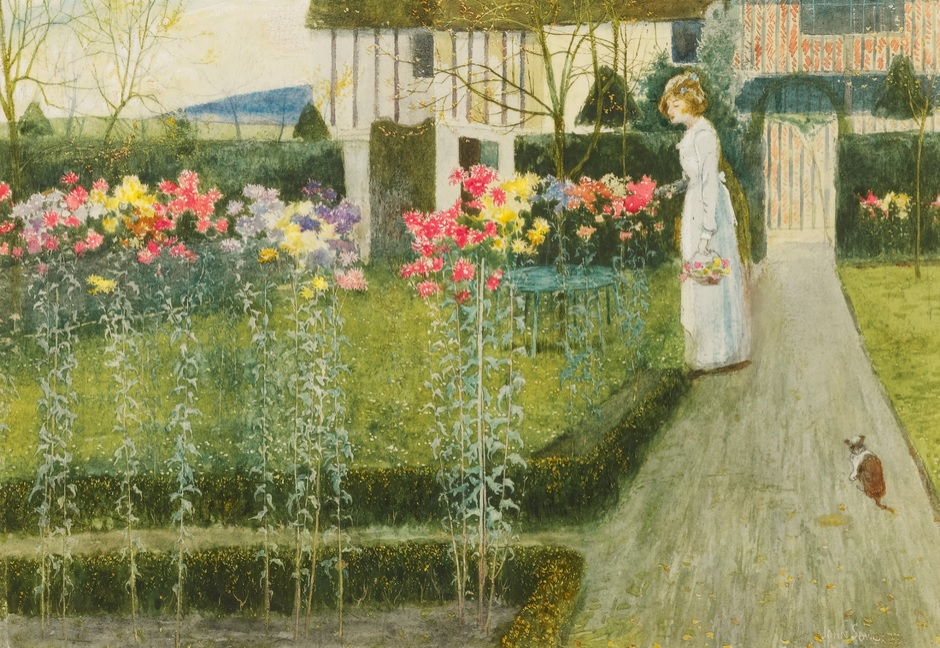 "Chrysanthemums"